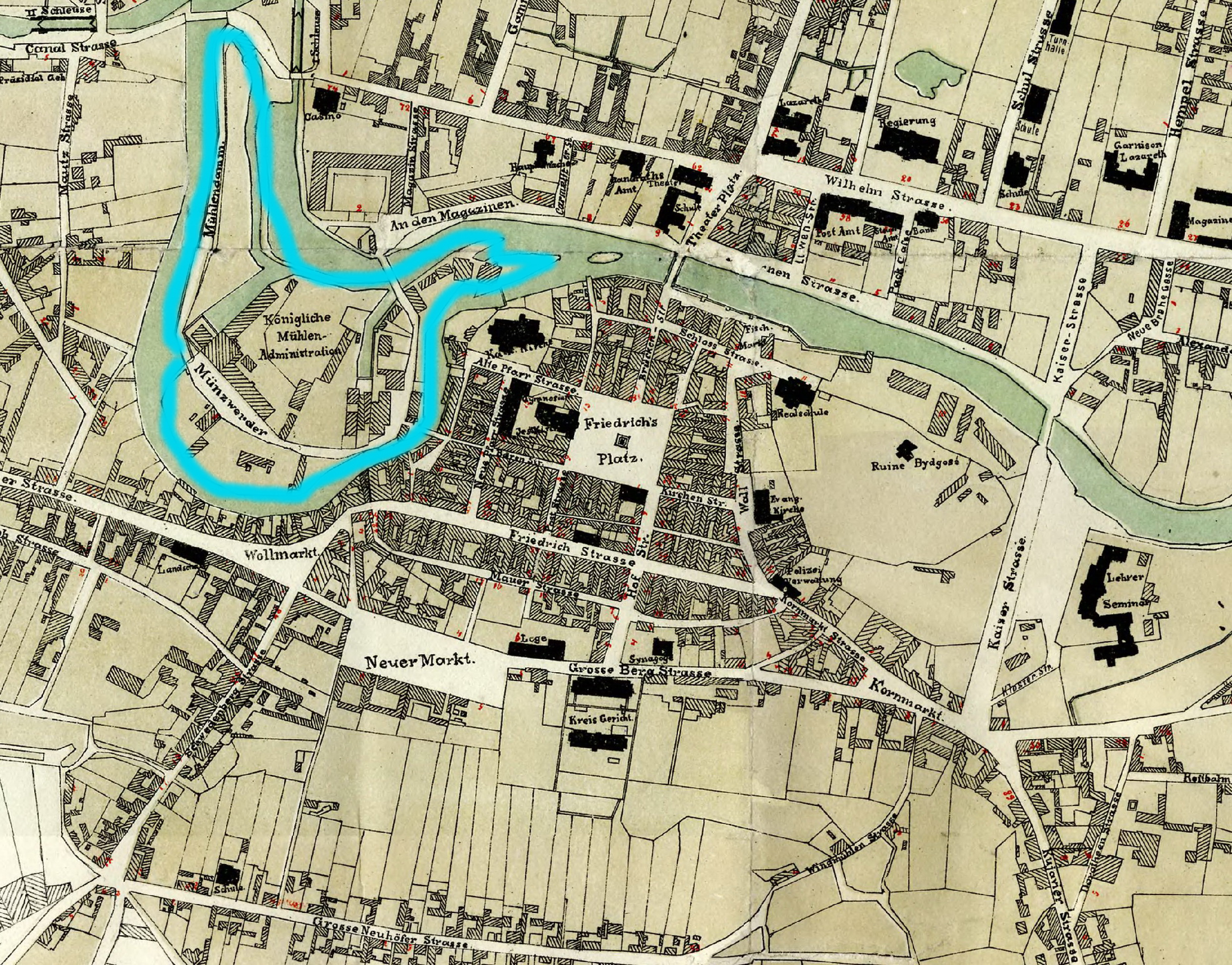 Island underlined